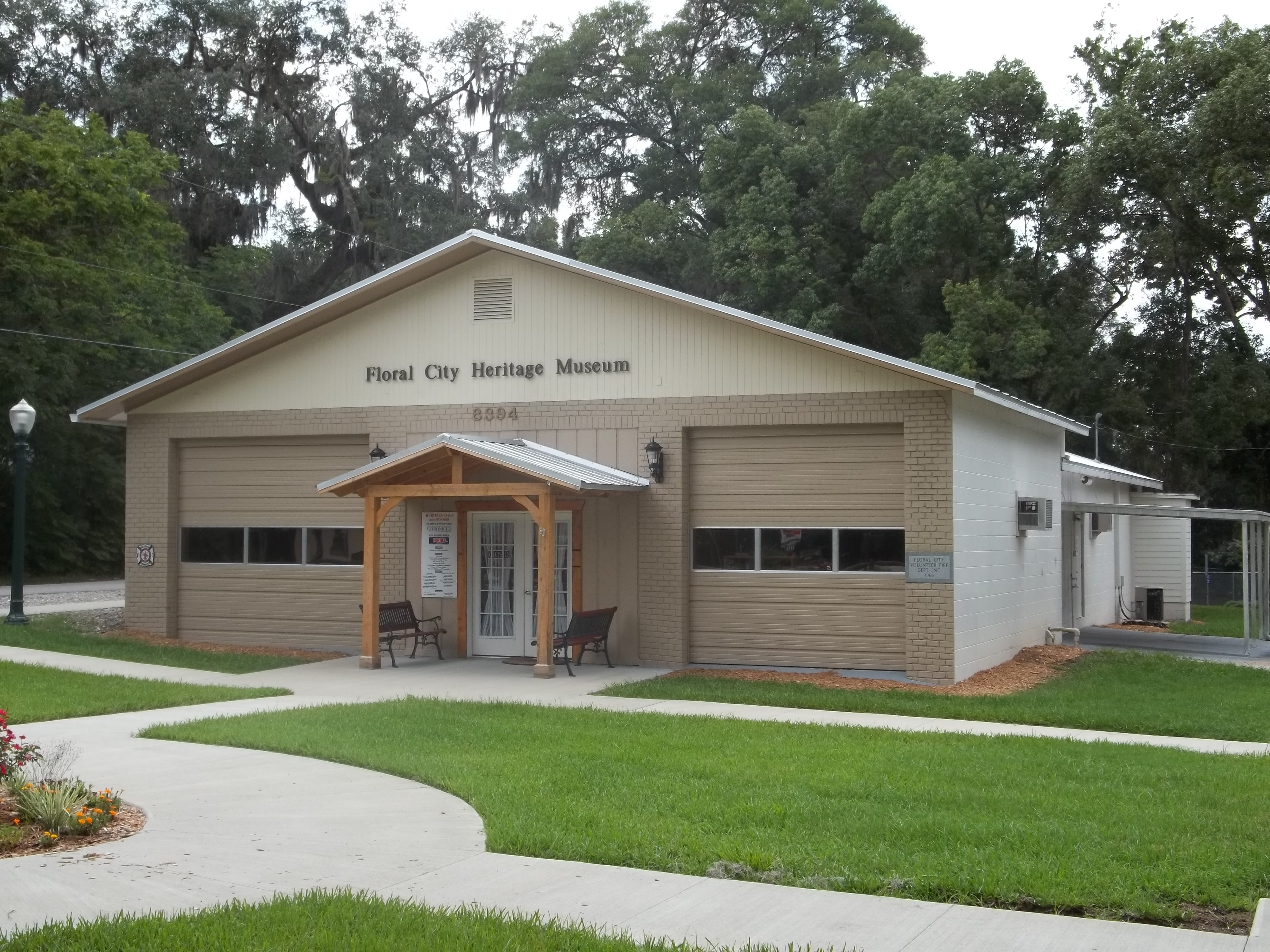 Floral City, Florida: Heritage Museum